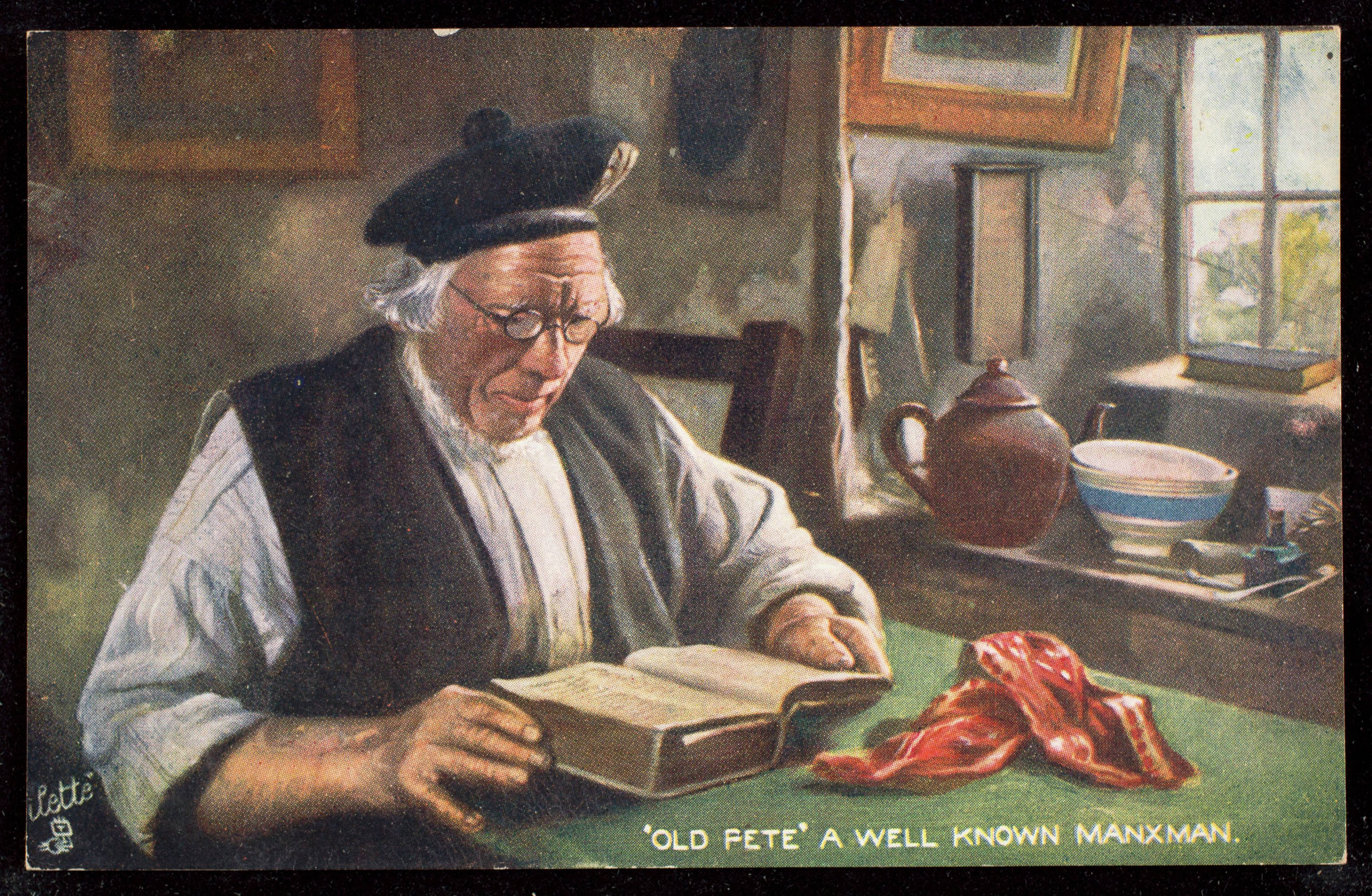 " Old Pete " a Well Known Manxman.